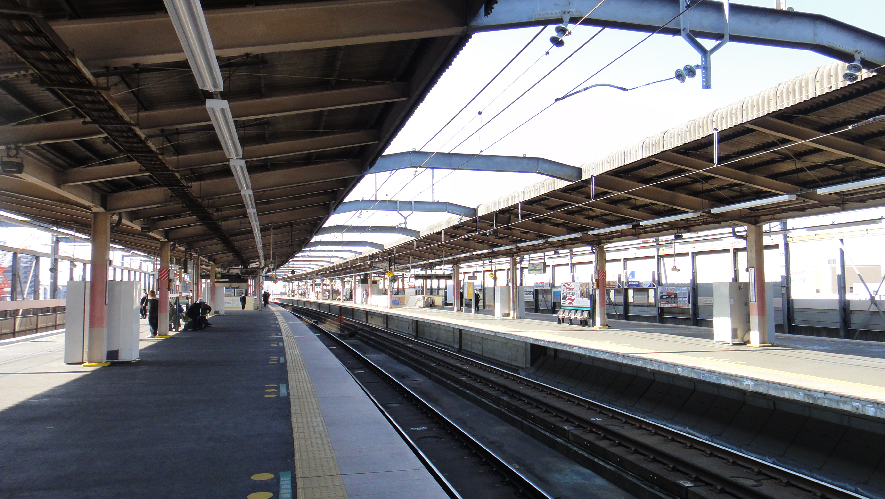 The Saikyo Line platforms of Musashi-Urawa Station looking northward (down platforms 6/5 on left, up platforms 4/3 on right)